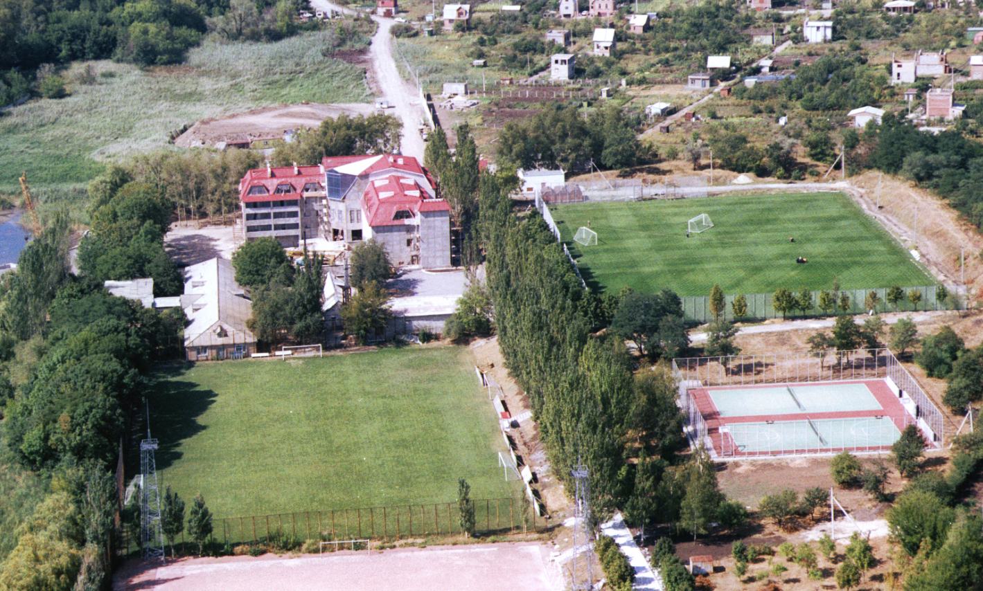 Kirsha Training Centre in Donetsk, Ukraine, during renovation in 1998